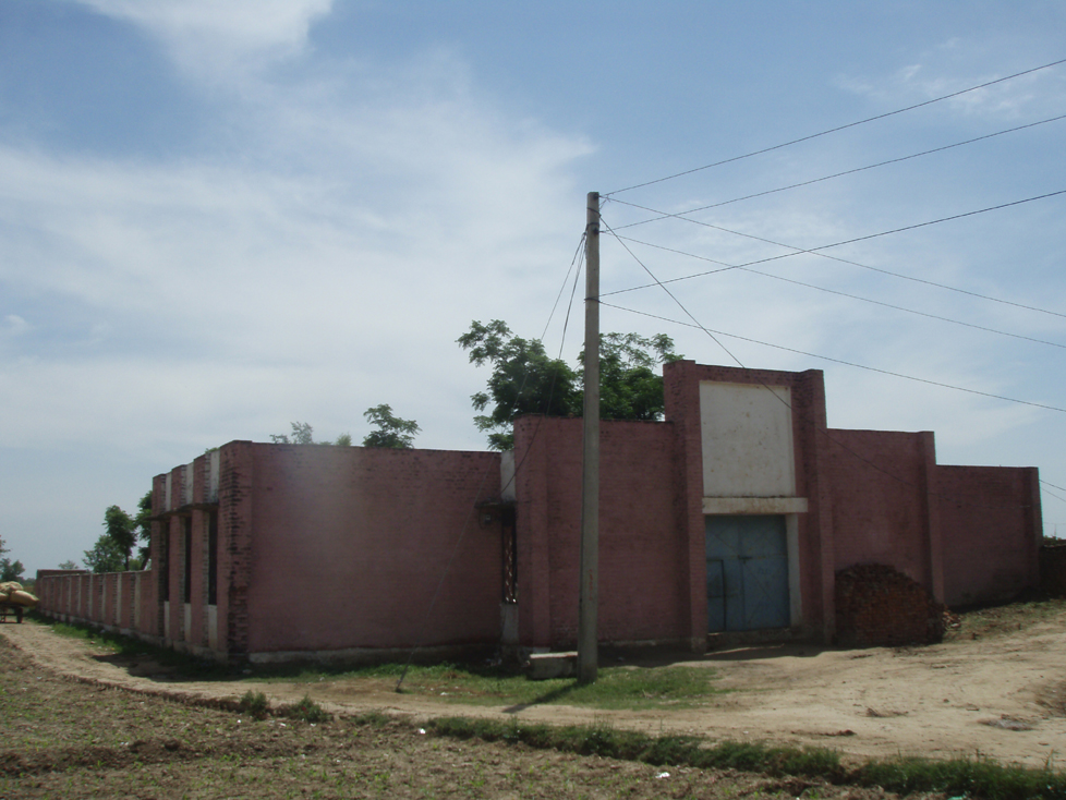 Govt Girls Primary school